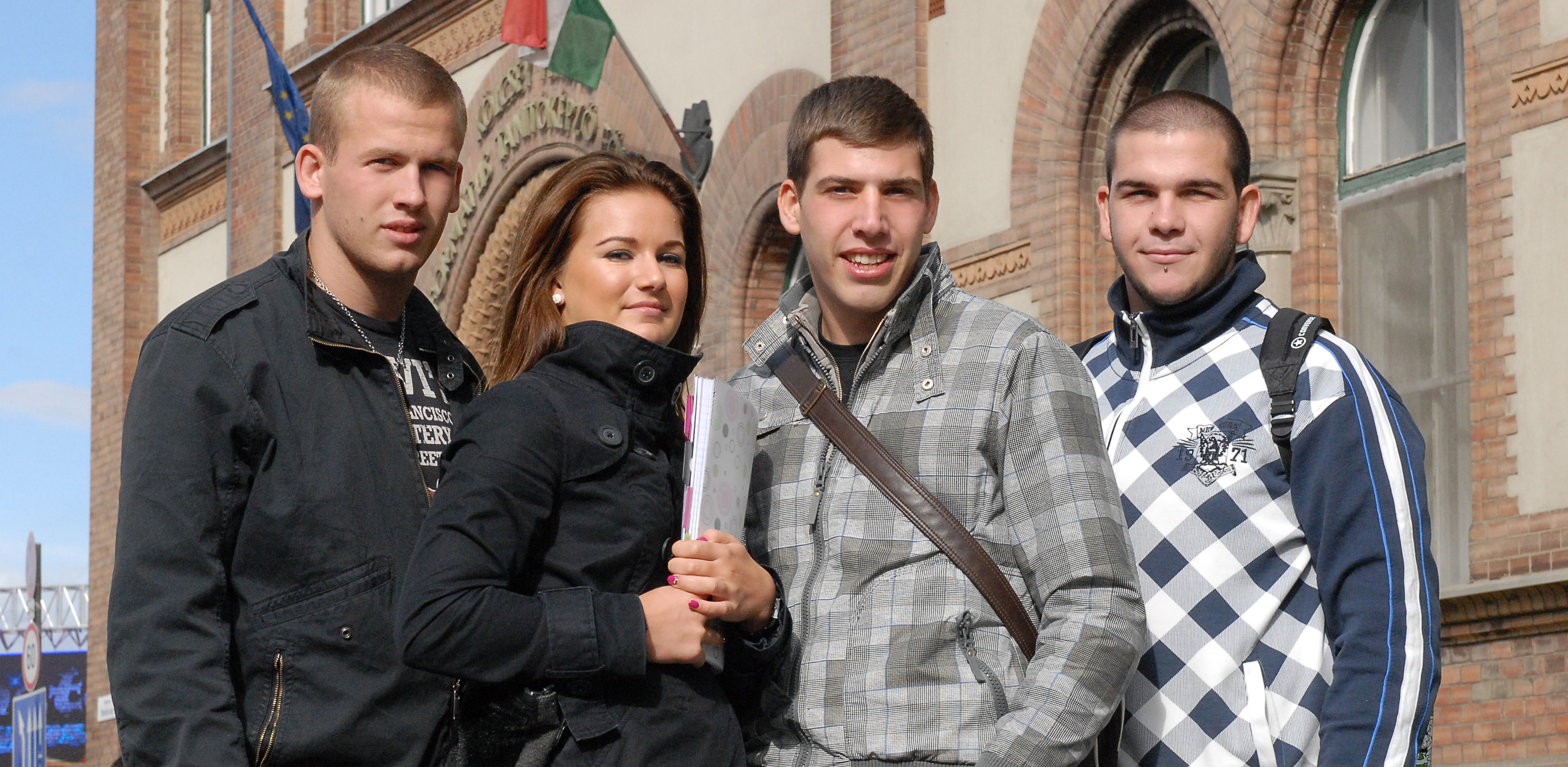 Főiskolai élet